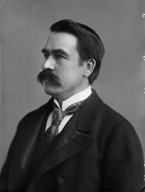 William Martin Conway Given by Bassano and Vandyk Studios to National Portrait Gallery, London, 1974